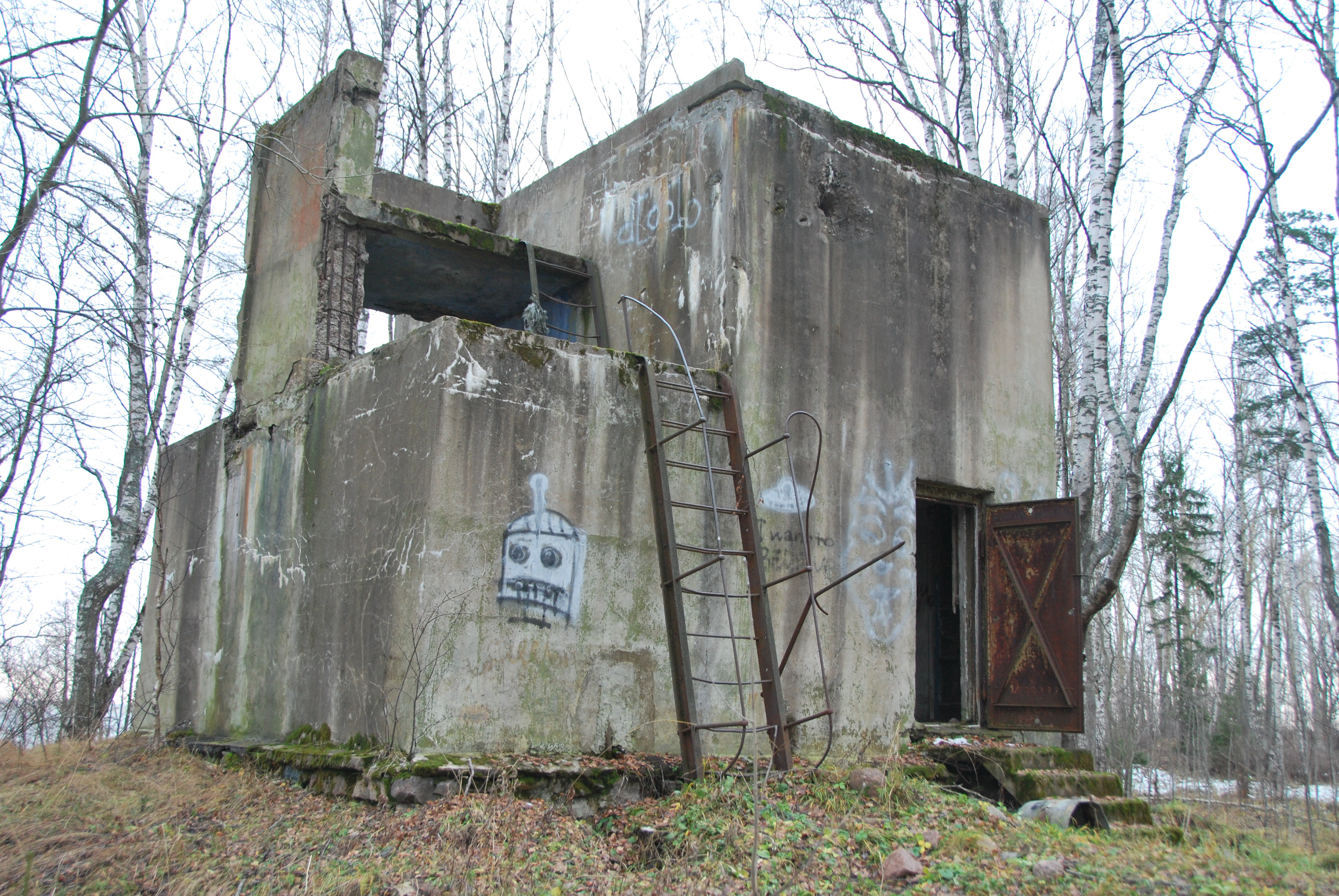 Rangefinding building of Seraya Loshad fort